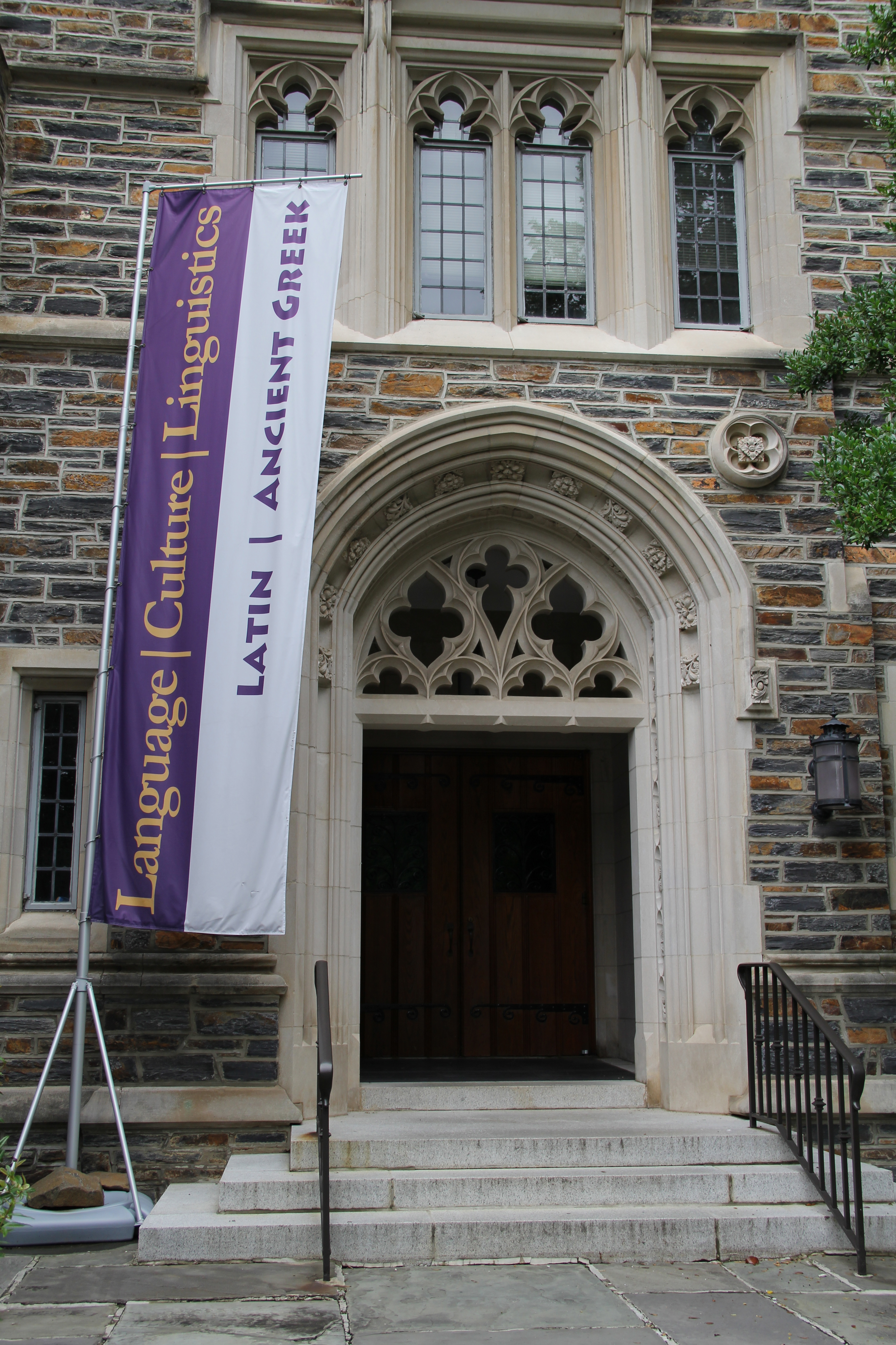 Latin and Ancient Greek Language - Culture - Linguistics at Duke University in 2014. Photo taken as part of Summer of Monuments 2014 camping trip. This image was uploaded as part of Wikipedia Summer of Monuments. English |+/−